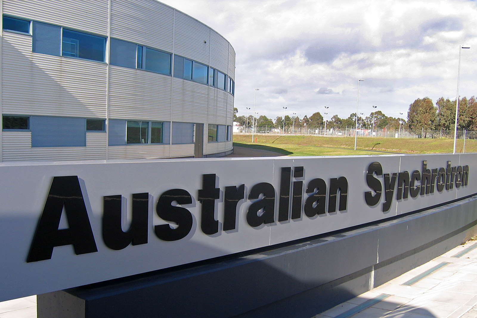 The Australian Synchrotron building, Clayton, Victoria.